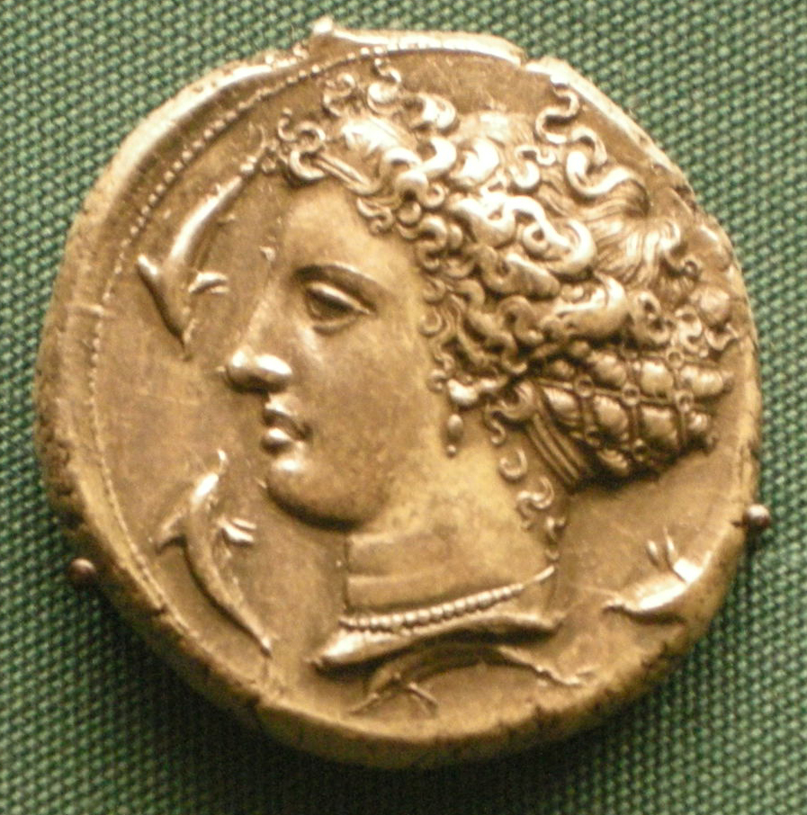 Syracuse, reverse of a silver dekadrachm. Signed by Kimon Head of Arethusa left, wearing single-pendant earring and necklace, KI on ampyx, hair restrained at the back of her head in an open-weave sakkos; four dolphins around.